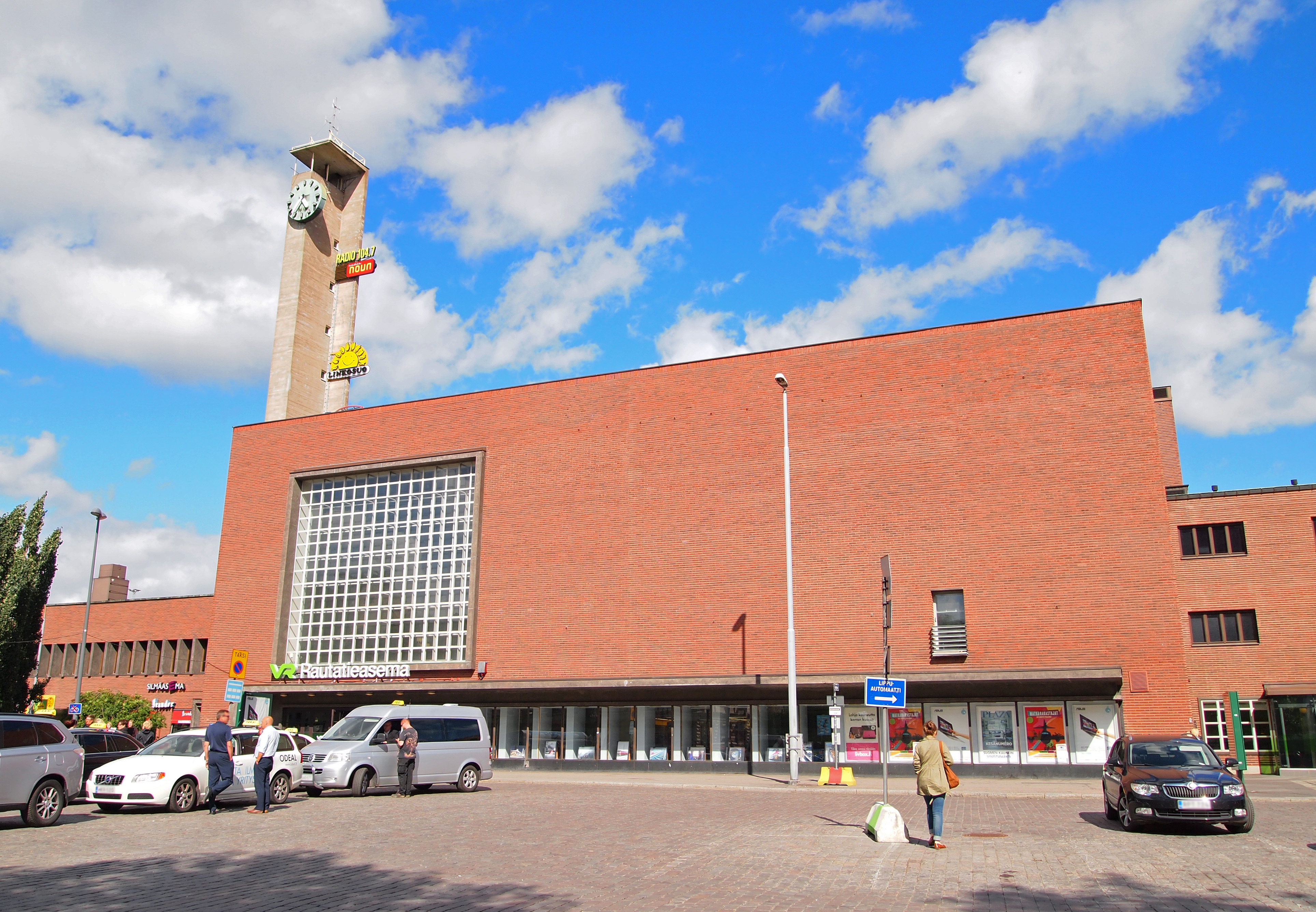 Railway station in Tampere.